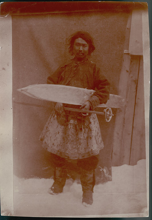 Nivkh hunter, who is wearing traditional fur skirt - kosk, with wooden skies.